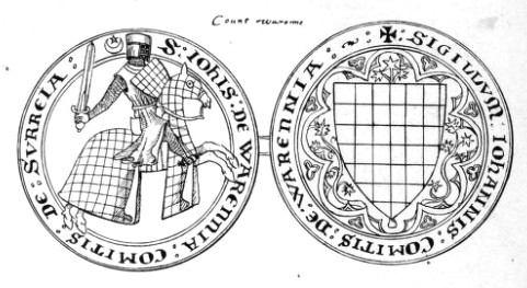 Seal of John de Varenne, earl of Surrrey